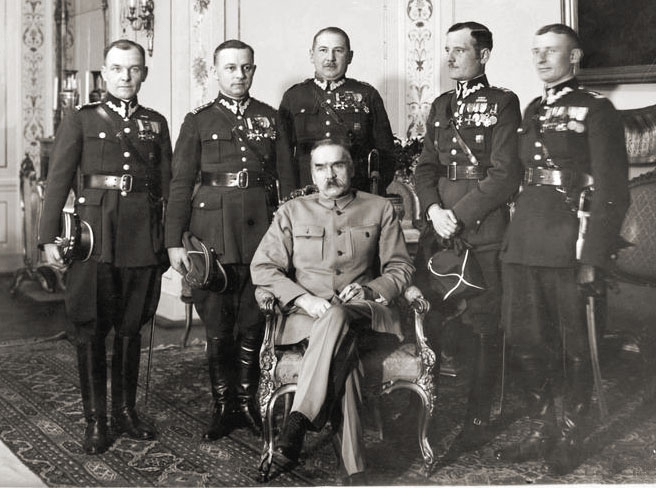 Józef Piłsudski with officers of 1st Legions Infantry Division. From the left: Stefan Biestek, Jak Kruszewski, Teodor Furgalski, Zygmunt Wenda, Władysław Filipkowski